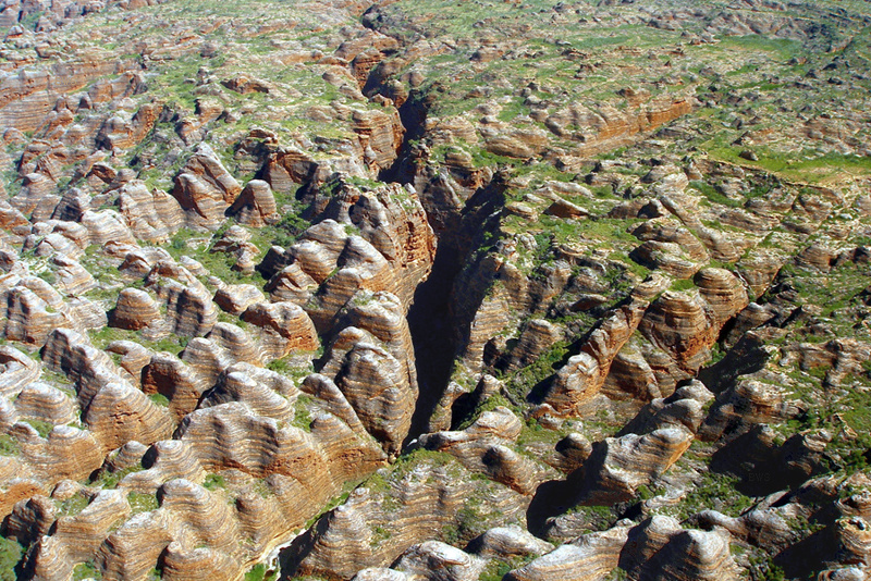 Purnululu National Park, Western Australia, Bungle Bungles, from plane